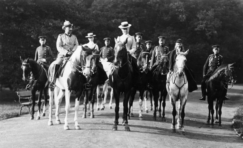 Morgenritt Kassel = Wilhelm 1906 Information added by Wikimedia users."Official Christmas card of Kaiser Wilhelm II sent to Hugh, 5th Earl of Lonsdale in 1902. The card features a photograph showing the Kaiser, Kaiserin, and their children on horseback in the Park at Schloss Wilhelmshohe near Cassel, 1902."